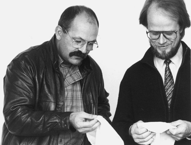 Photograph of the German journalist Günter Höhne (left) and the Finnish professor Yrjö Sotamaa at the University of Arts and Design in Helsinki.